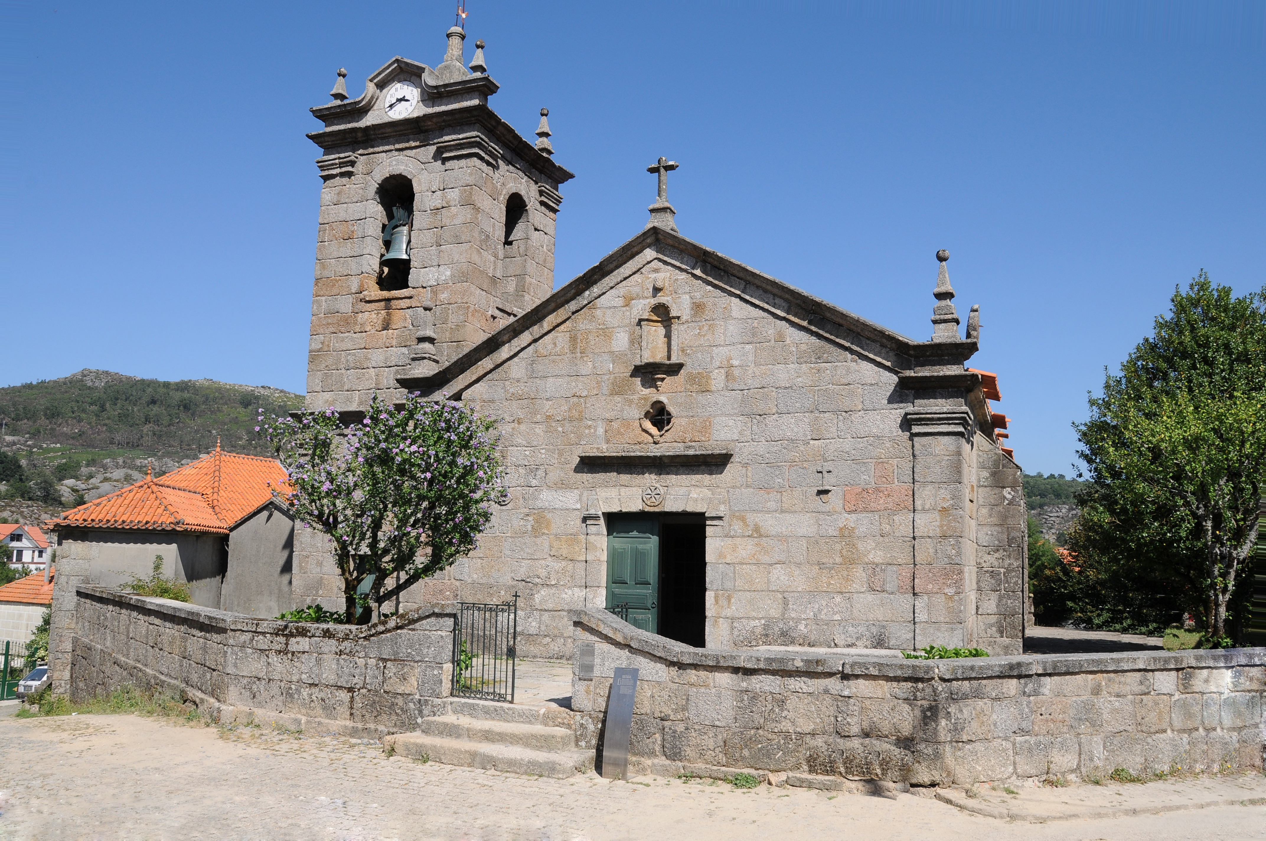 Castro Laboreiro church, in Castro Laboreiro, Melgaço, Portugal